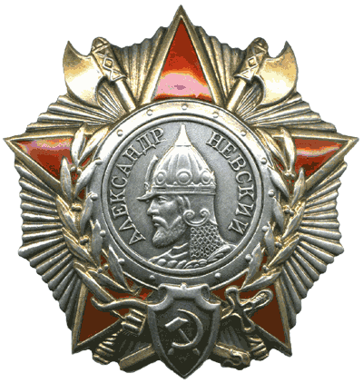 Order of Alexander Nevsky USSR, basic version 1942.